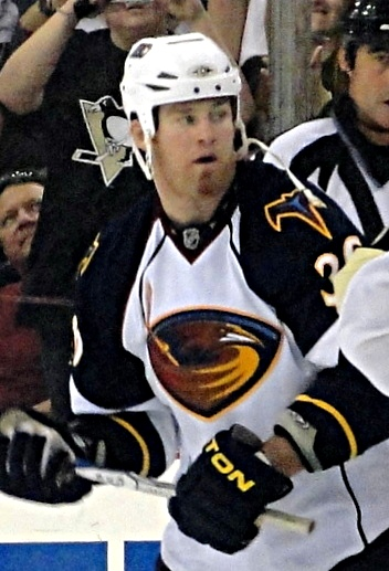 Atlanta Thrashers forward Eric Boulton during a game against the Pittsburgh Penguins, April 3, 2010 at Mellon Arena in Pittsburgh, PA.